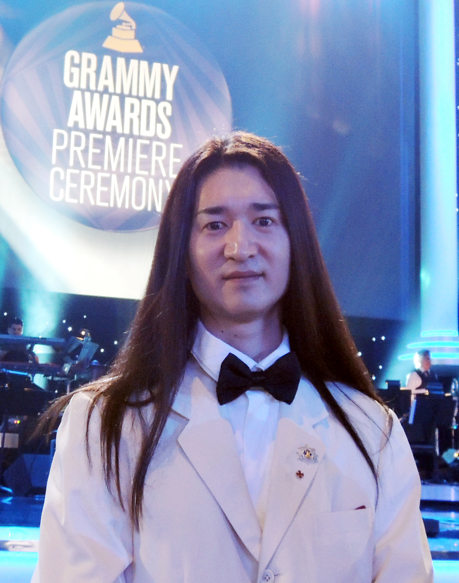 Kento Masuda at 57th Grammy Awards Ceremony